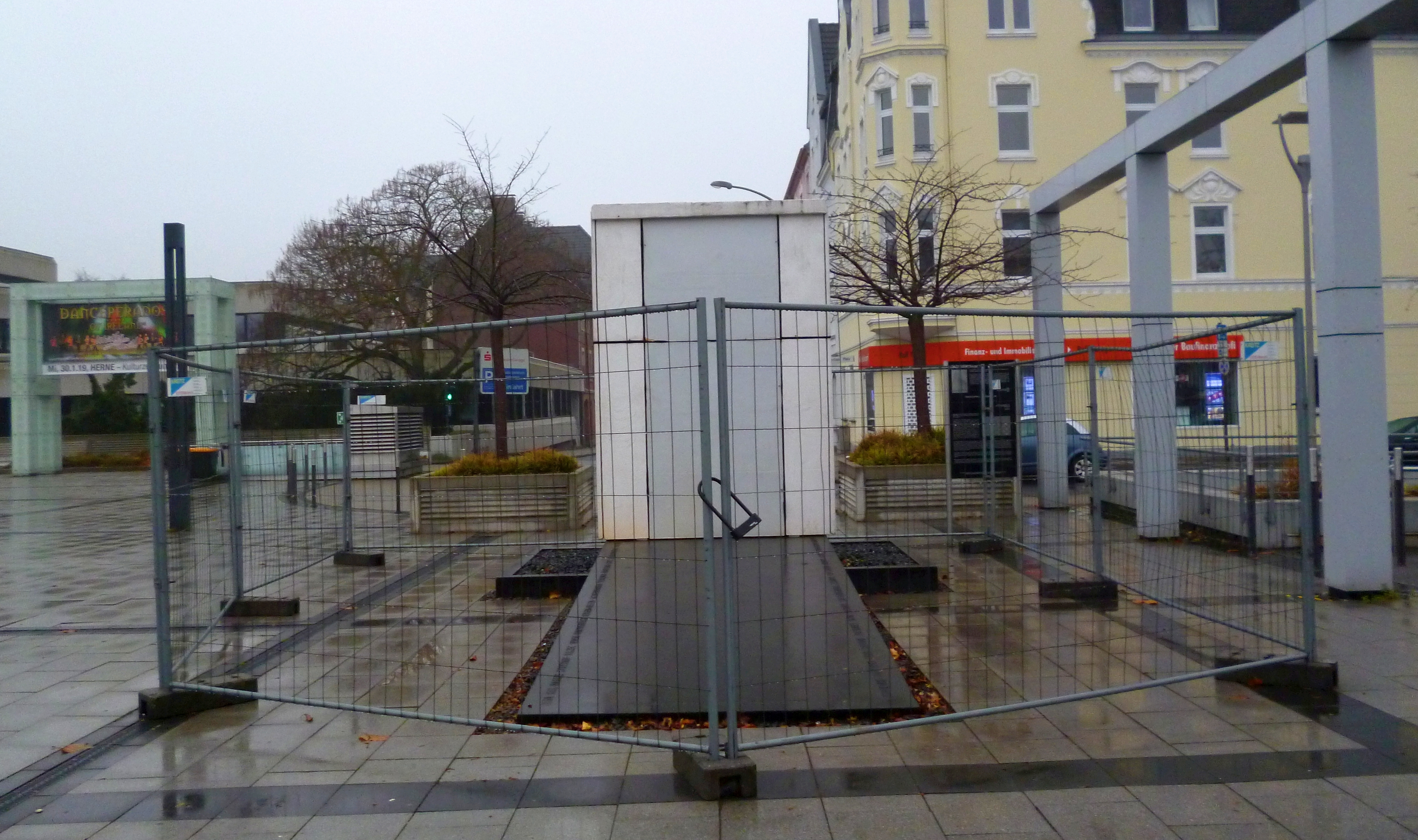 Holocaust memorial in Herne, Germany